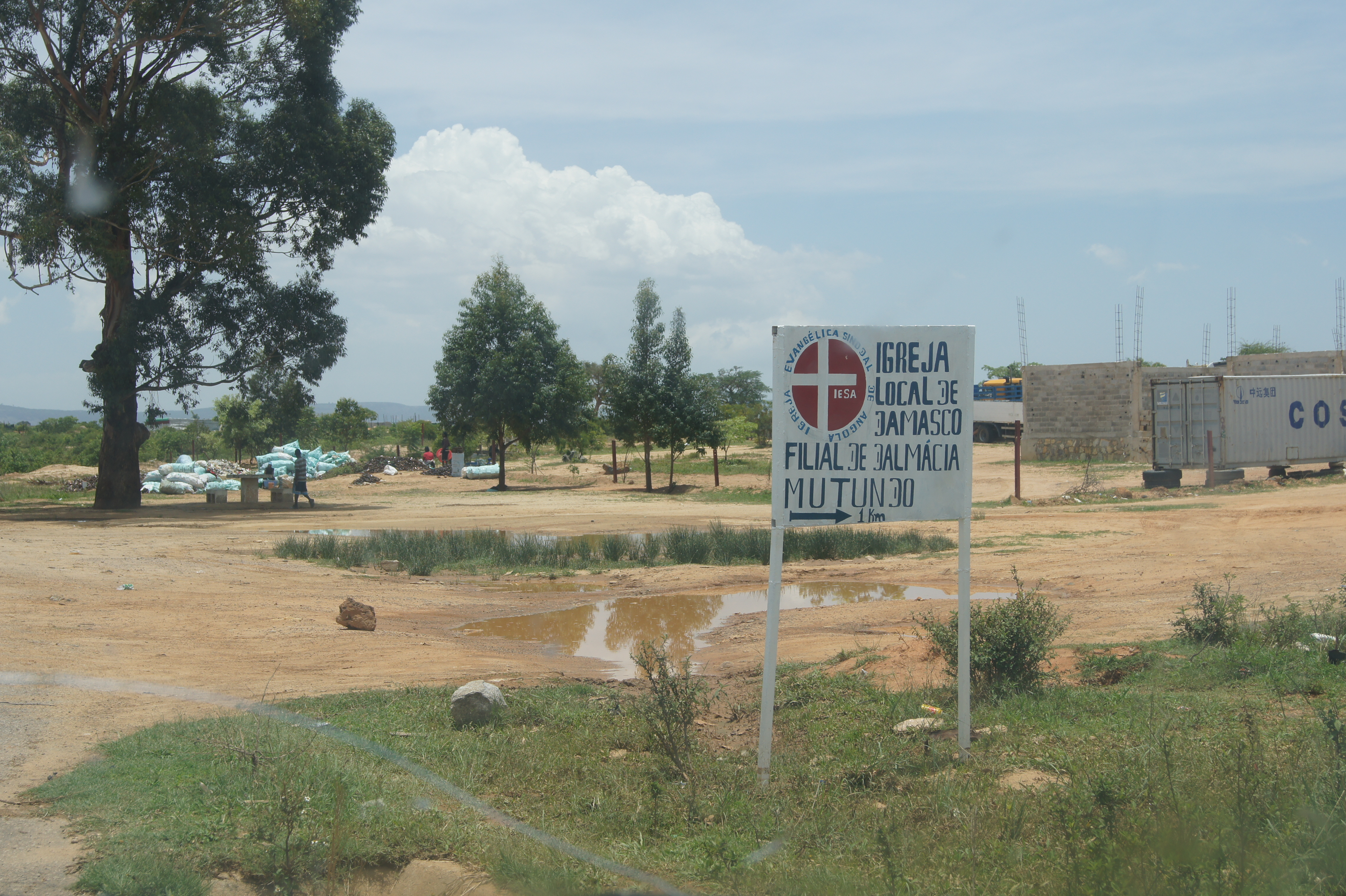 Site of an Evangelical Synodal Church of Angola (IESA), in Huila Province This is an image with the theme "Africa on the Move or Transport" from: Angola